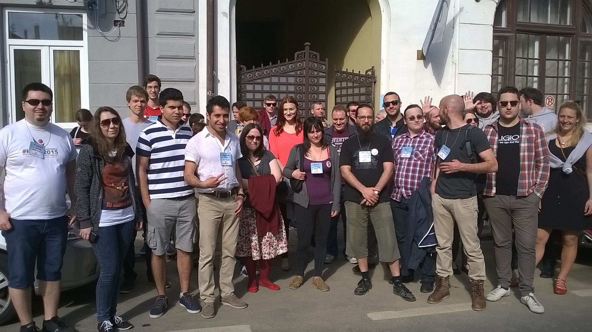 IHEYO's first East European Conference 2015, Romania